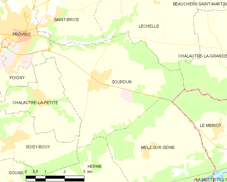 Map of French municipality Sourdun